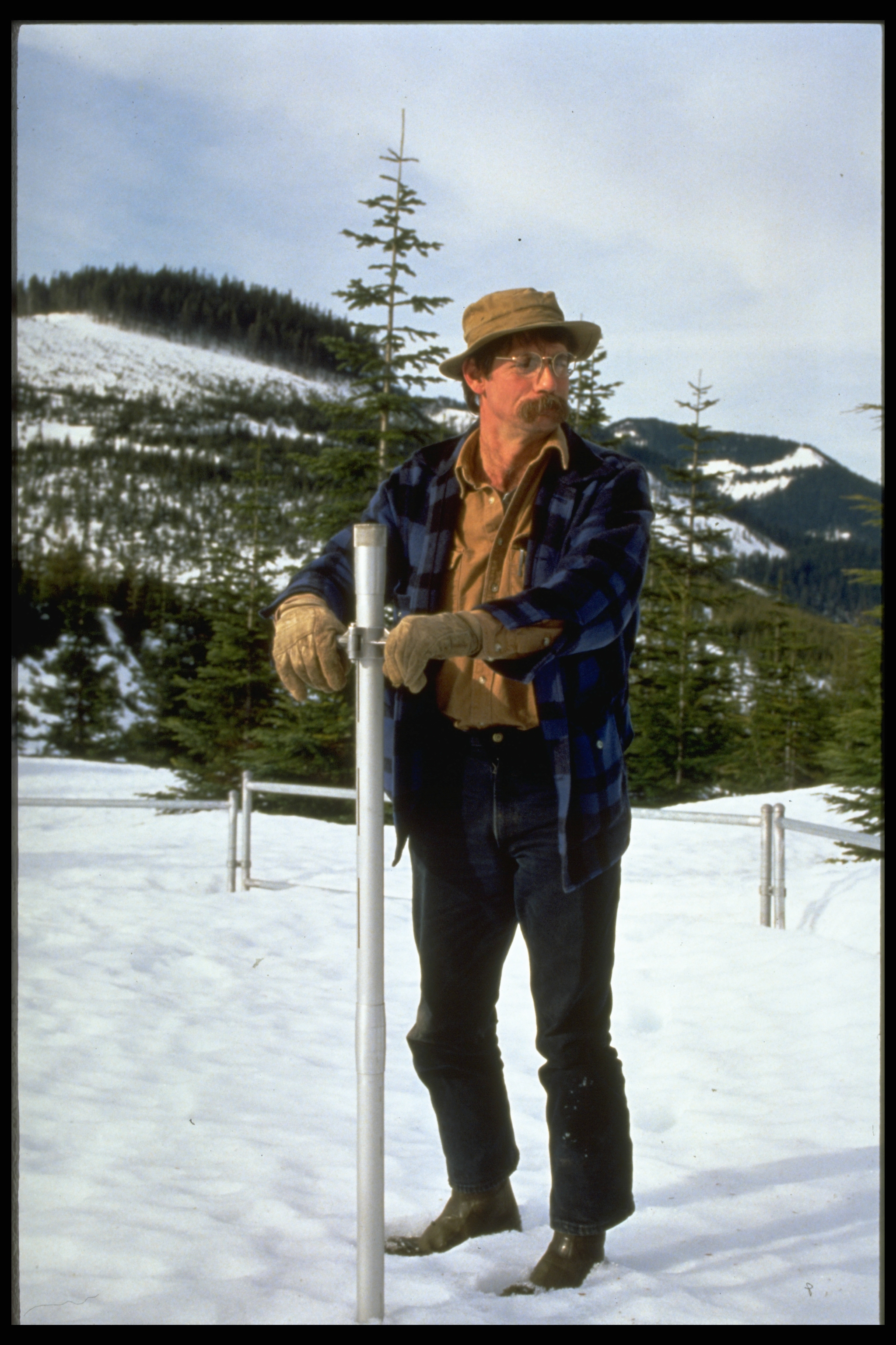 Measuring snow in Seattle watershed, 1995 Item 149262, Water Department Digitized Slides (Record Series 8200-14), Seattle Municipal Archives.